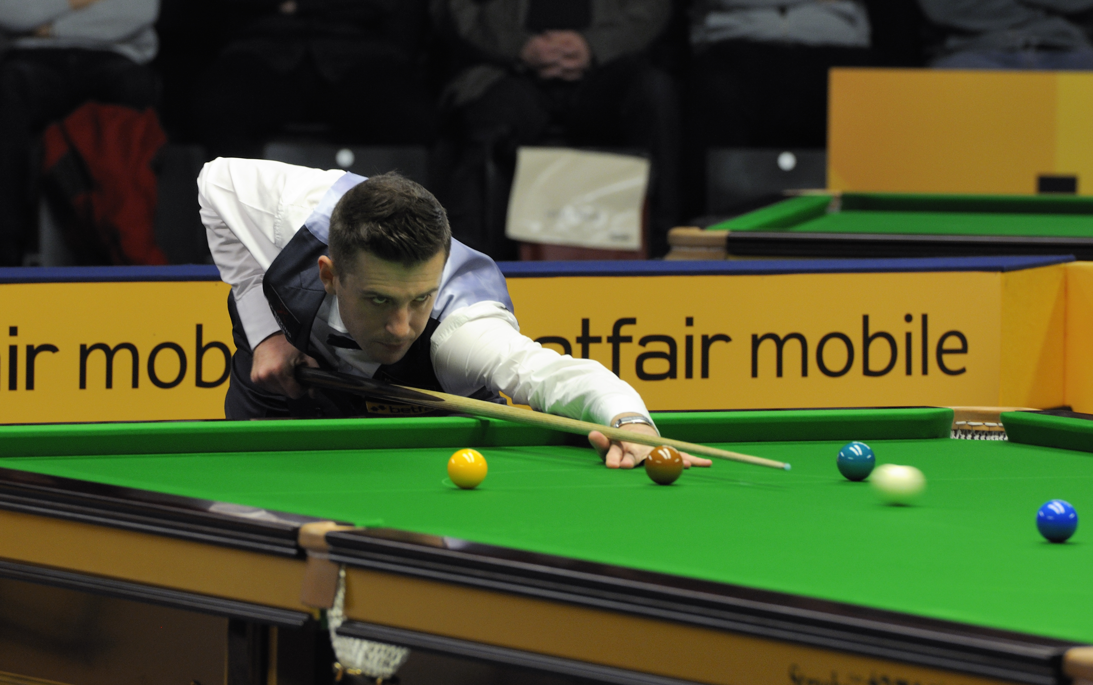 Picture taken in Berlin during the Snooker German Masters in 2013. Mark Selby.